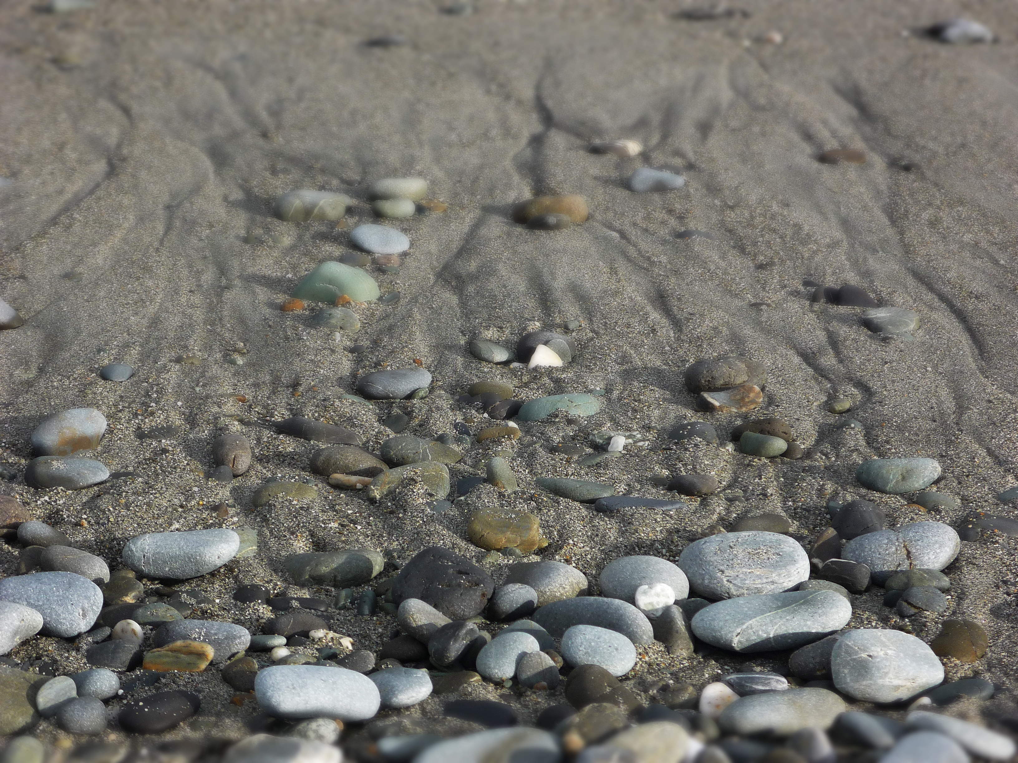 Beach stones and sand on the west coast of New Zealand's South Island